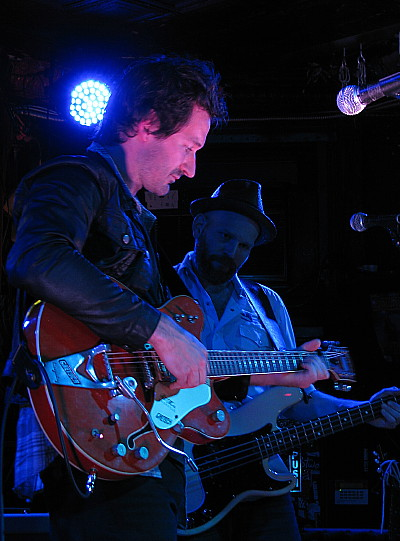 Photograph of Griffin House by on stage at The Saint in Asbury Park, NJ on April 23, 2013. By LHCollins.